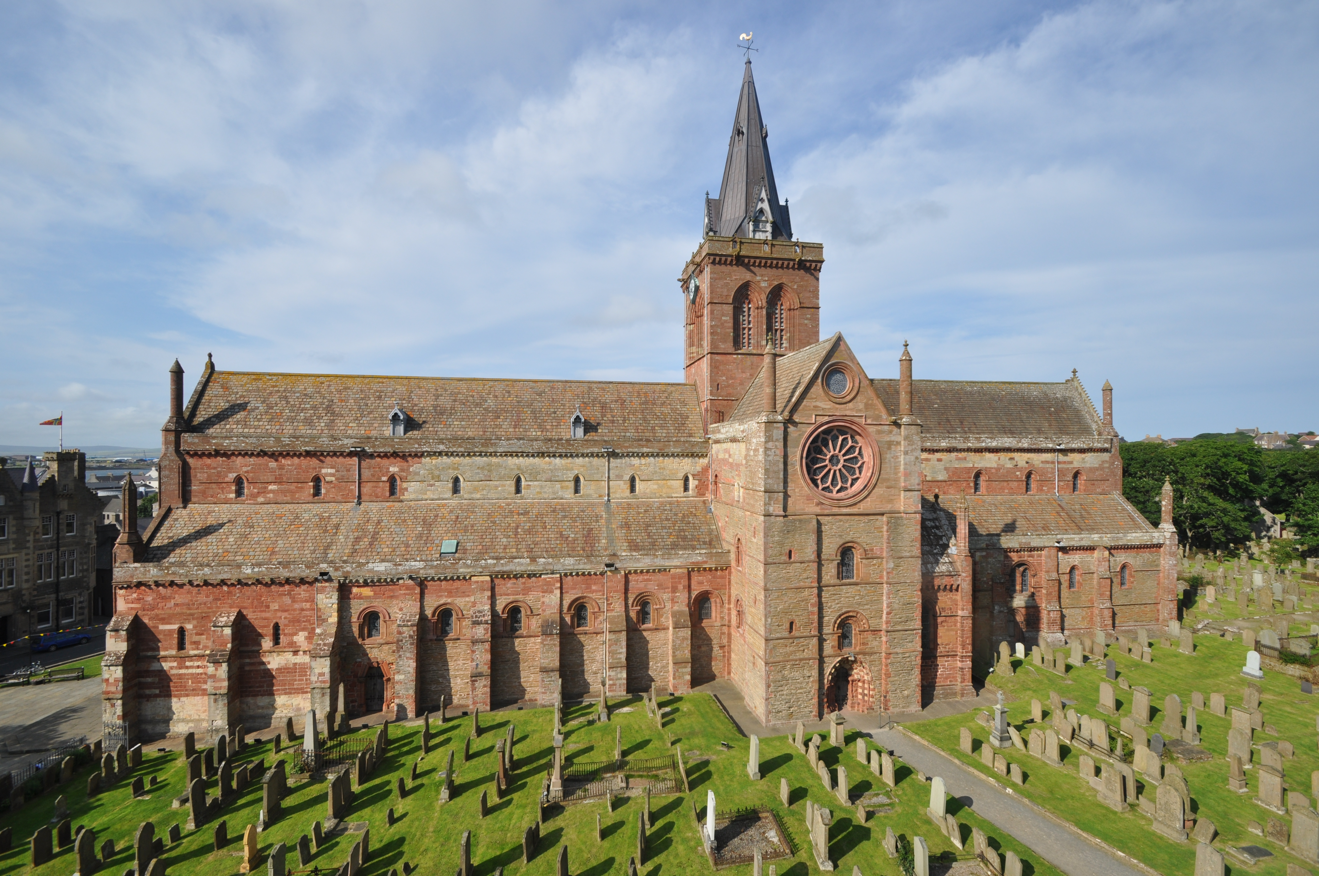 St Magnus Cathedral, Kirkwall, seen from the tower of the Bishop's Palace Wikidata has entry Q17572324 with data related to this building.